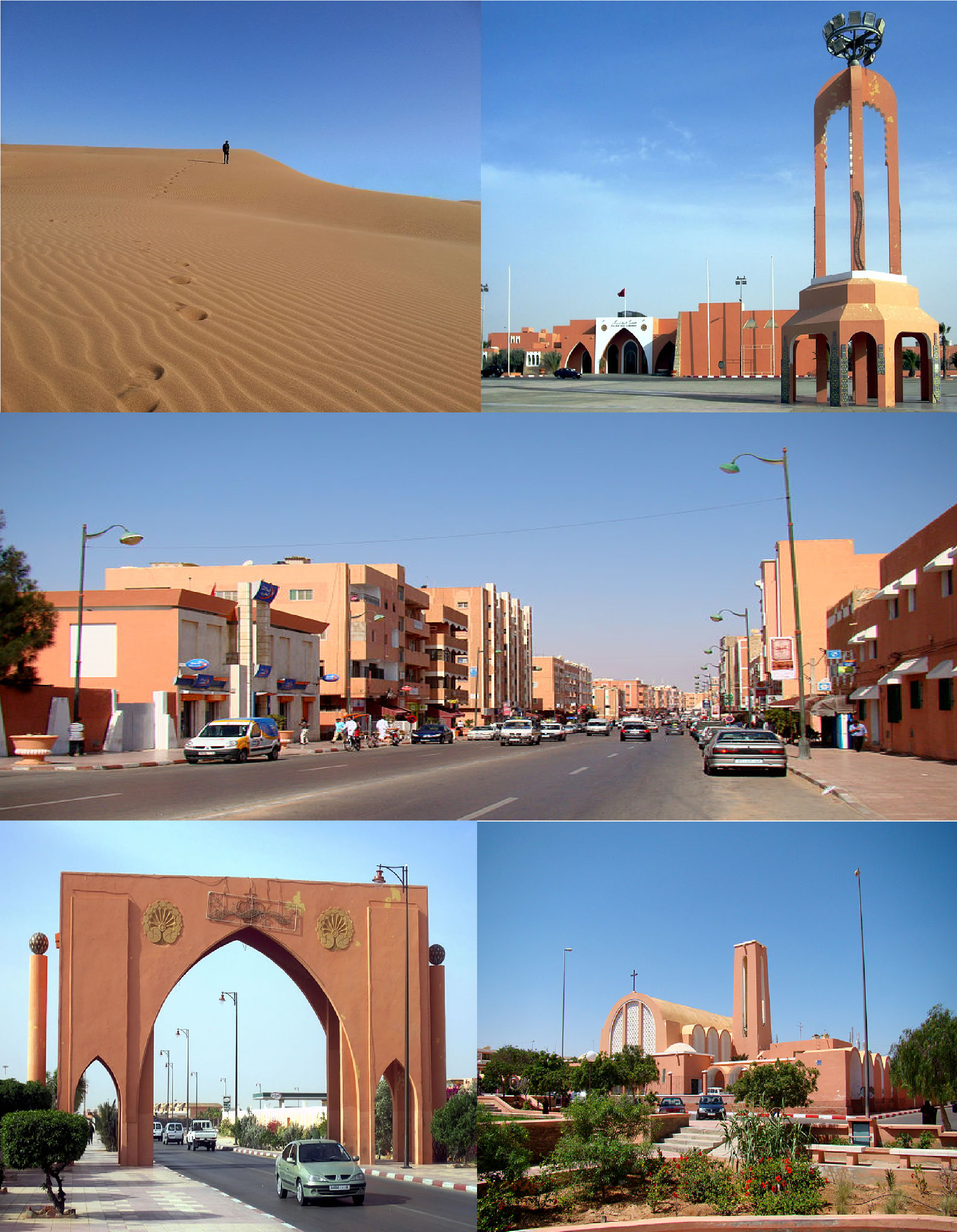 El Aaiún-Laâyoune Collage